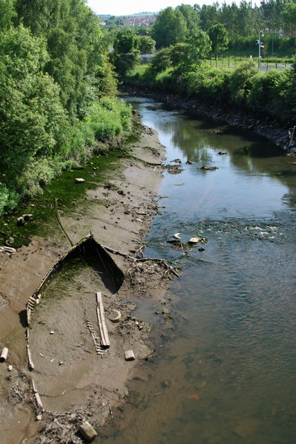 River Team The River Team at Teams in Gateshead.